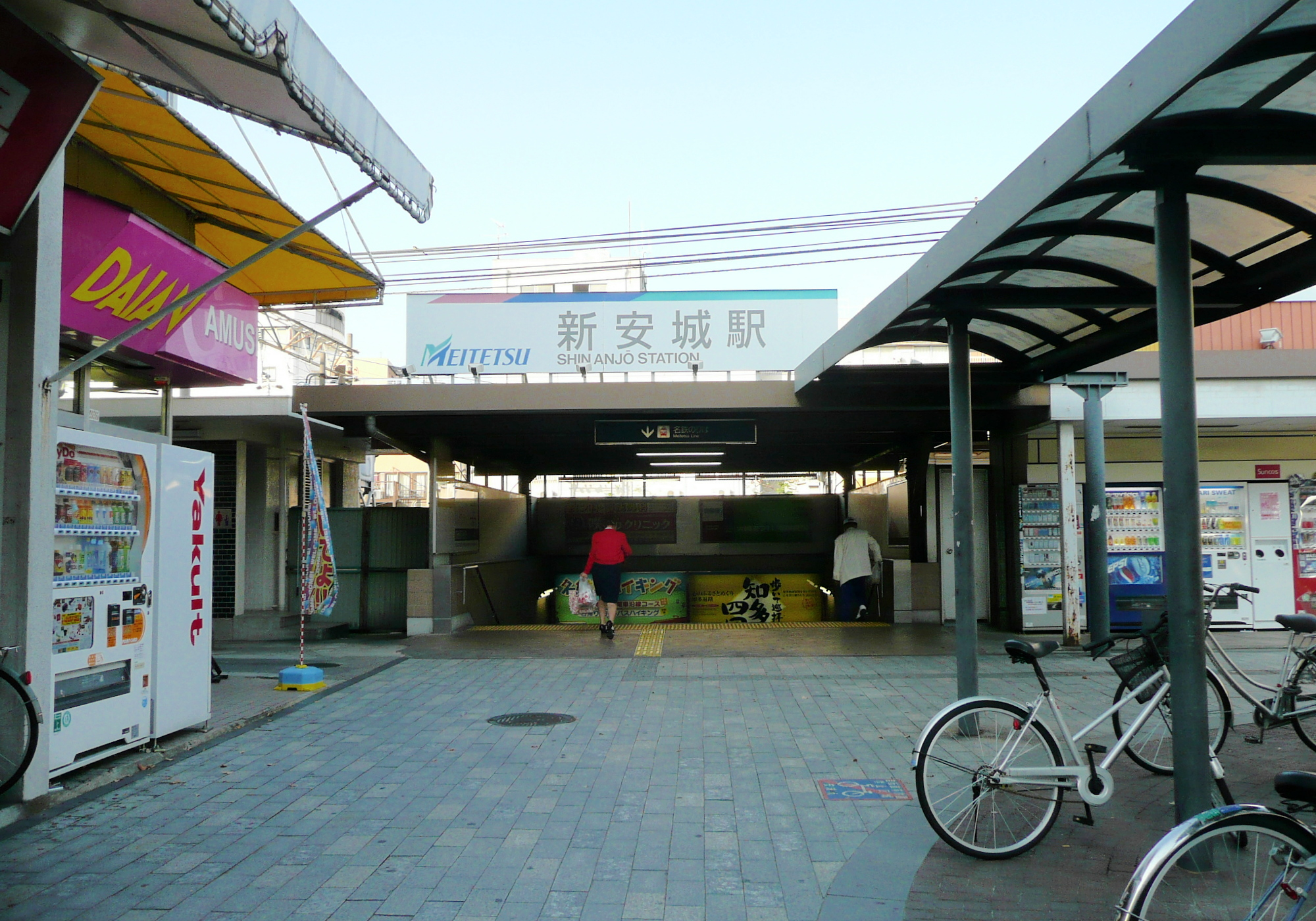 SHIN ANJO Station south entrance,Nagoya Railroad.